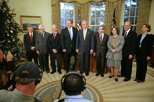 President George W. Bush meets with the American 2007 Nobel Award recipients in the Oval Office Monday, Nov. 26, 2007. They are, from left: Harlan Watson, Oliver Smithies, Mario Capecchi, former Vice President Al Gore, Eric Maskin, Susan Solomon, Roger Myerson and Sharon Hays.